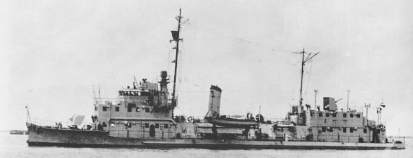 IJN gunboat SUMIDA(II) at Osaka Port.